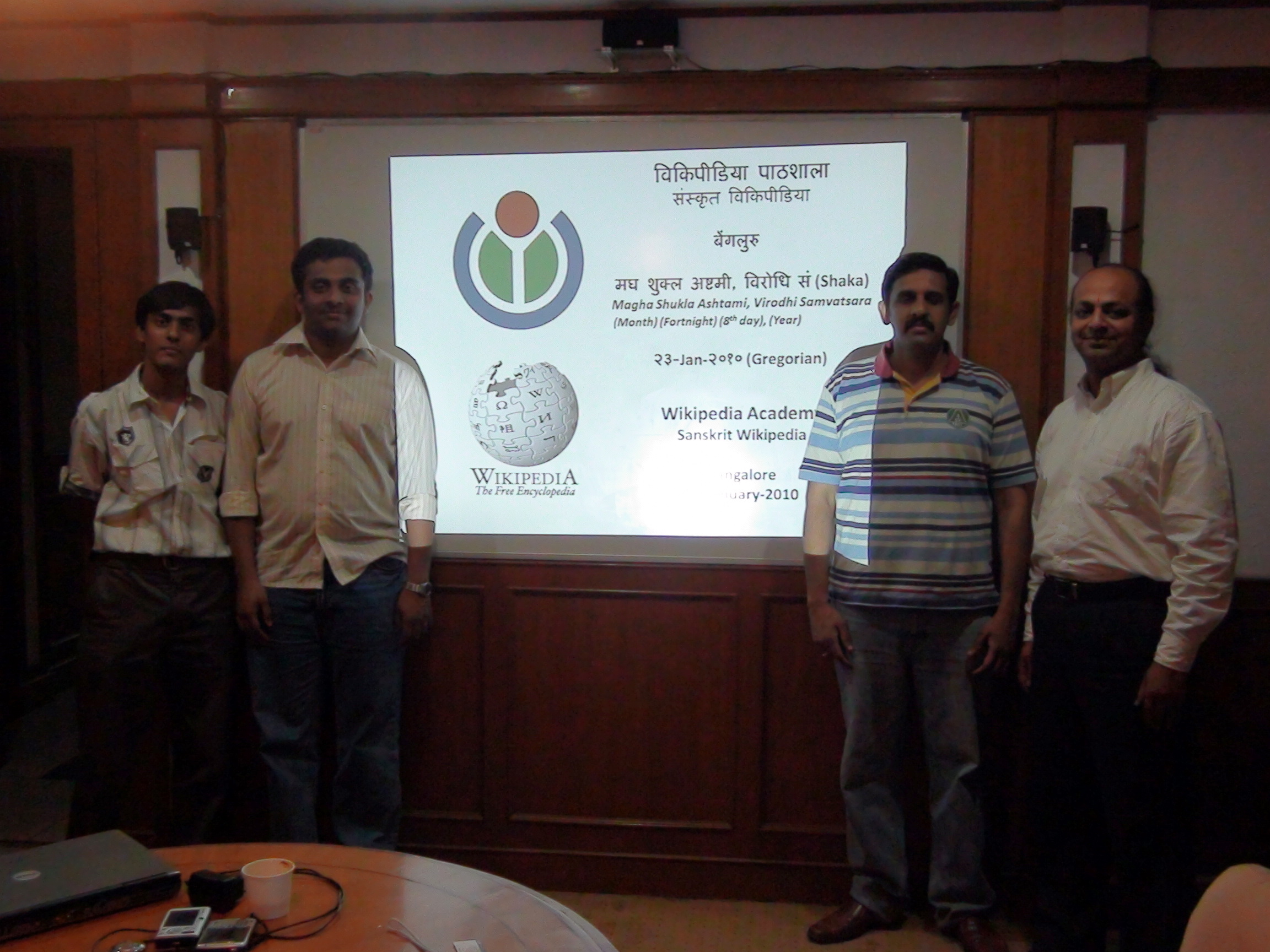 Samskrit Wikipedia Academy Wikipedian volunteers. 23-Jan-2010